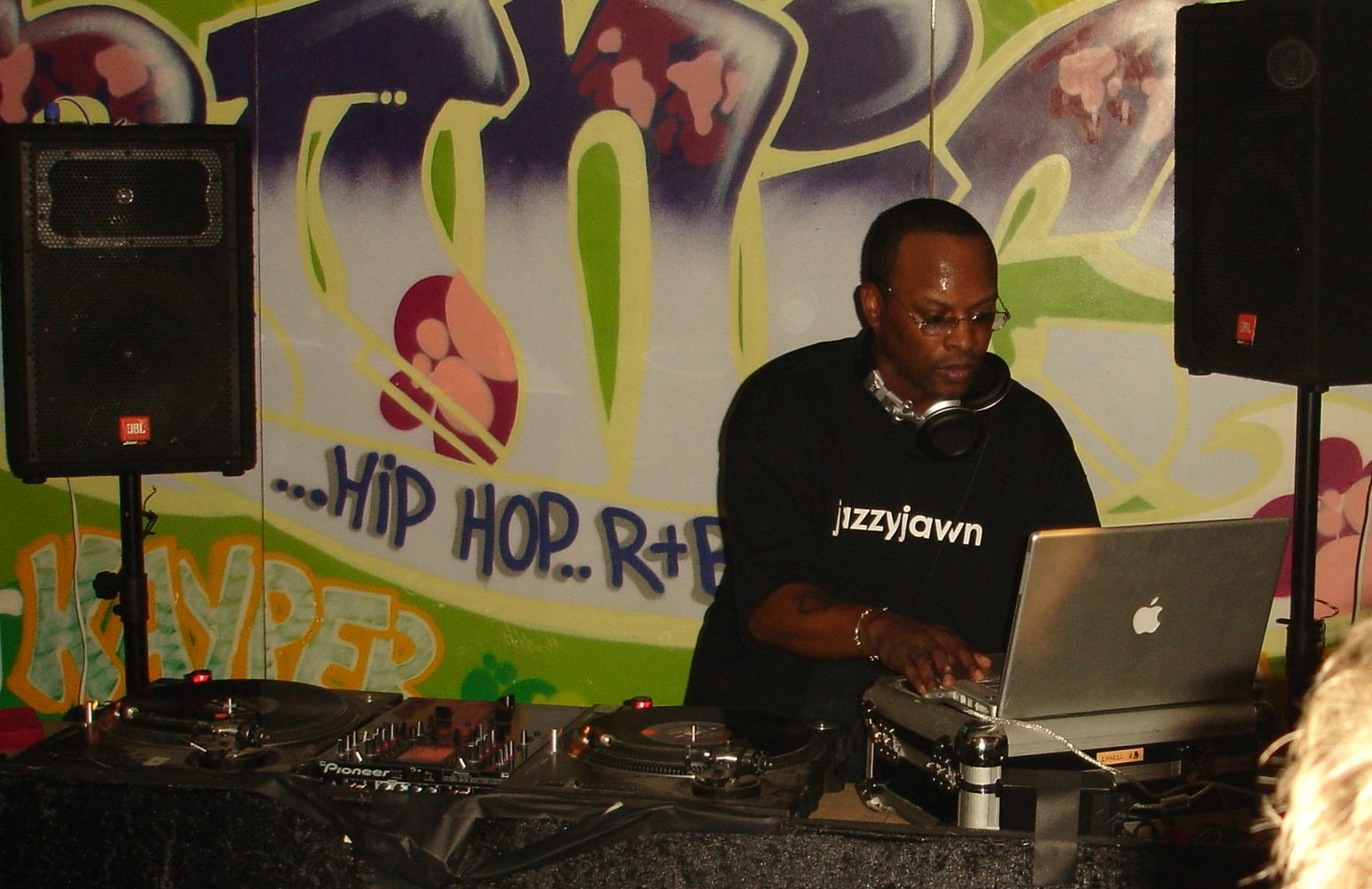 DJ Jazzy Jeff in Cambridge, England on May 25, 2005